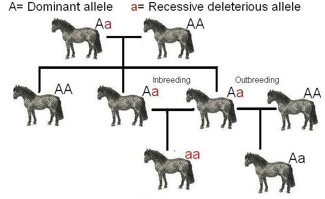 Inbreeding by Shetlandpony